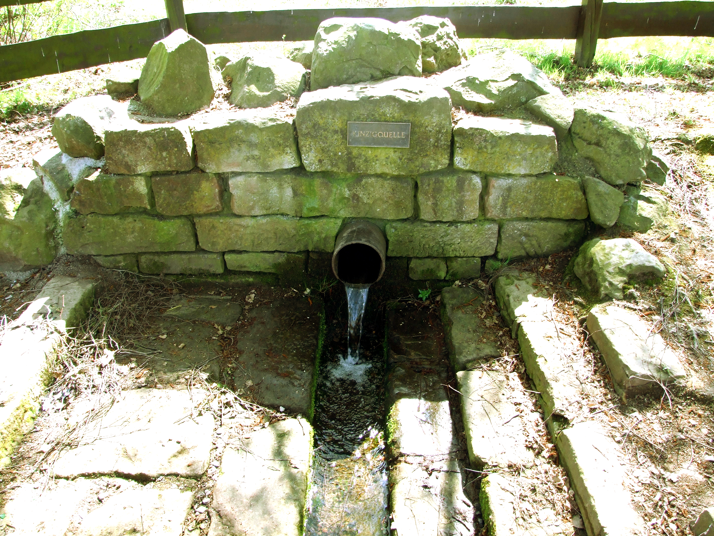 This picture shows the orign/source of the river Kinzig (Hessen - Germany) in the small village Sterbfritz (Main-Kinzig-Kreis)